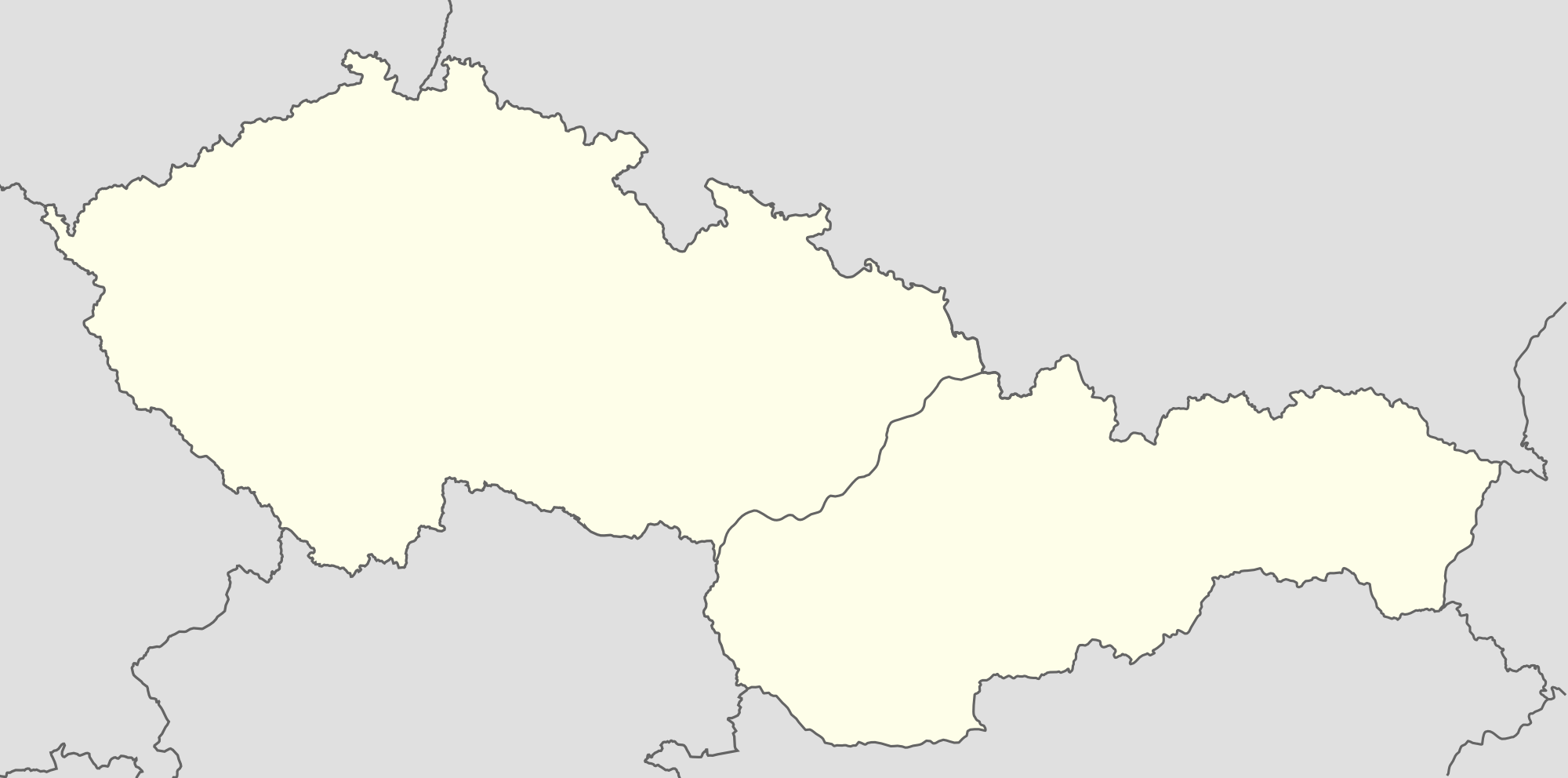 Location map of Czechoslovakia (1951–1990)